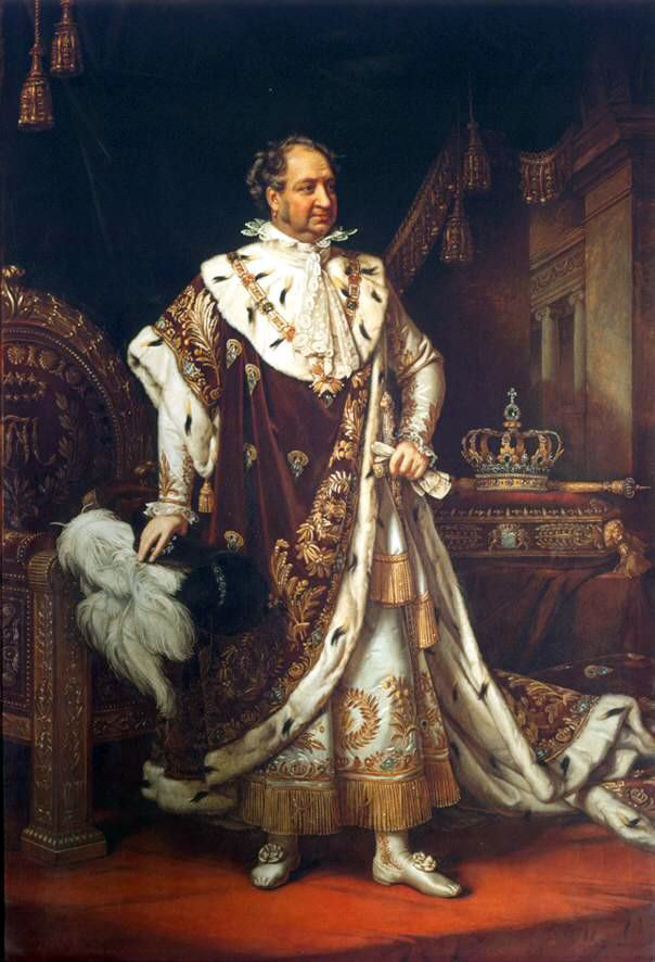 Portrait of Maximilian I Joseph of Bavaria (1756-1825)